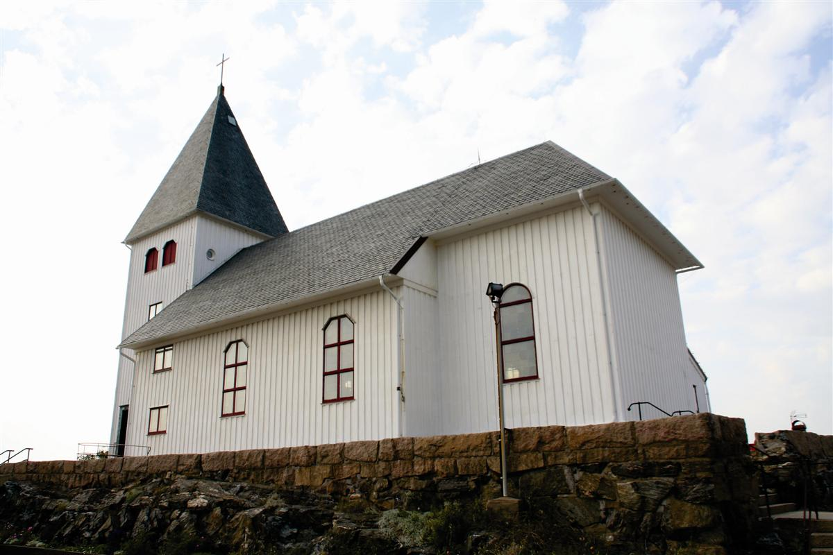 Skärhamn Church